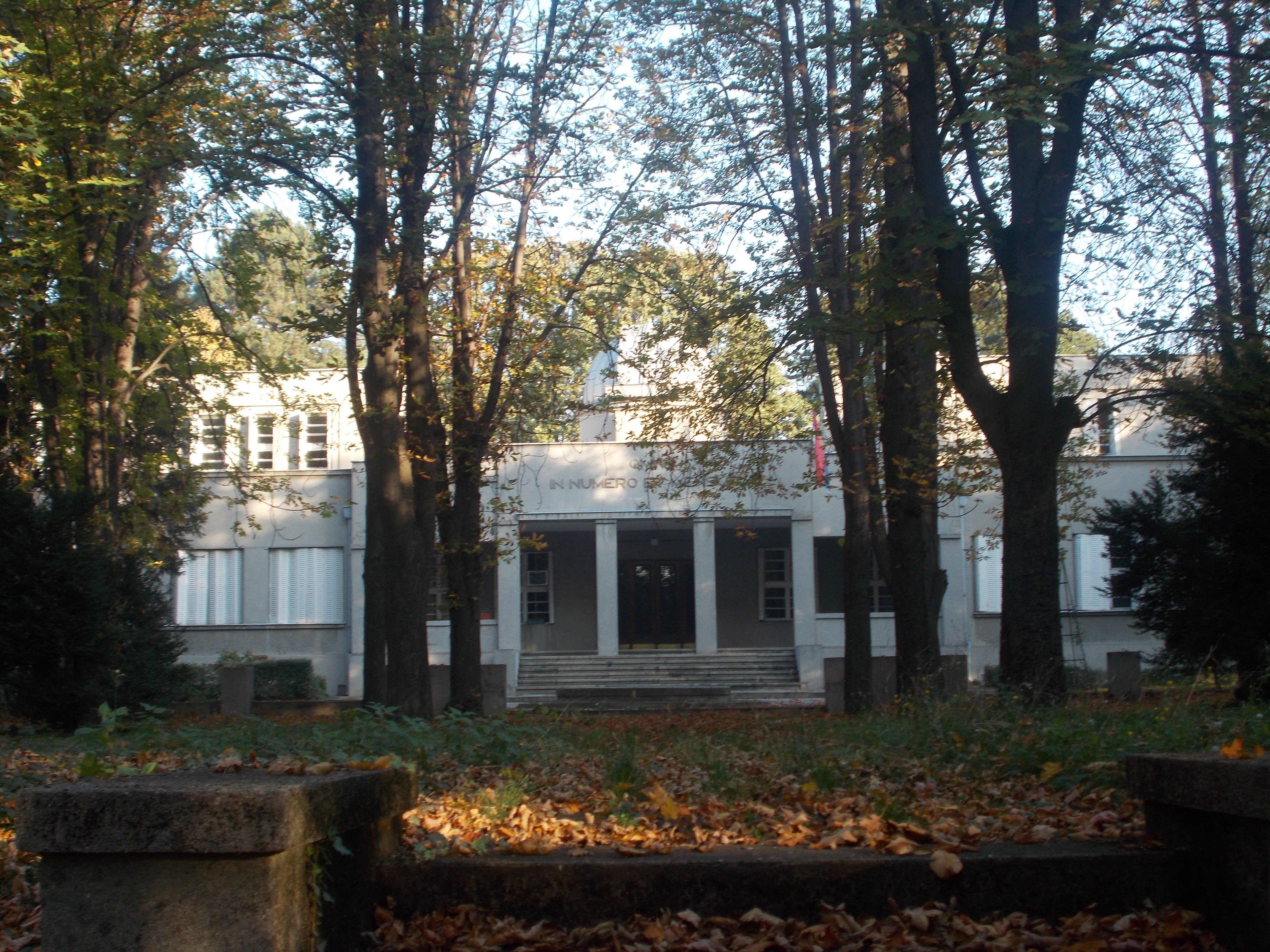 Administrative building of Belgrade observatory, built 1932.